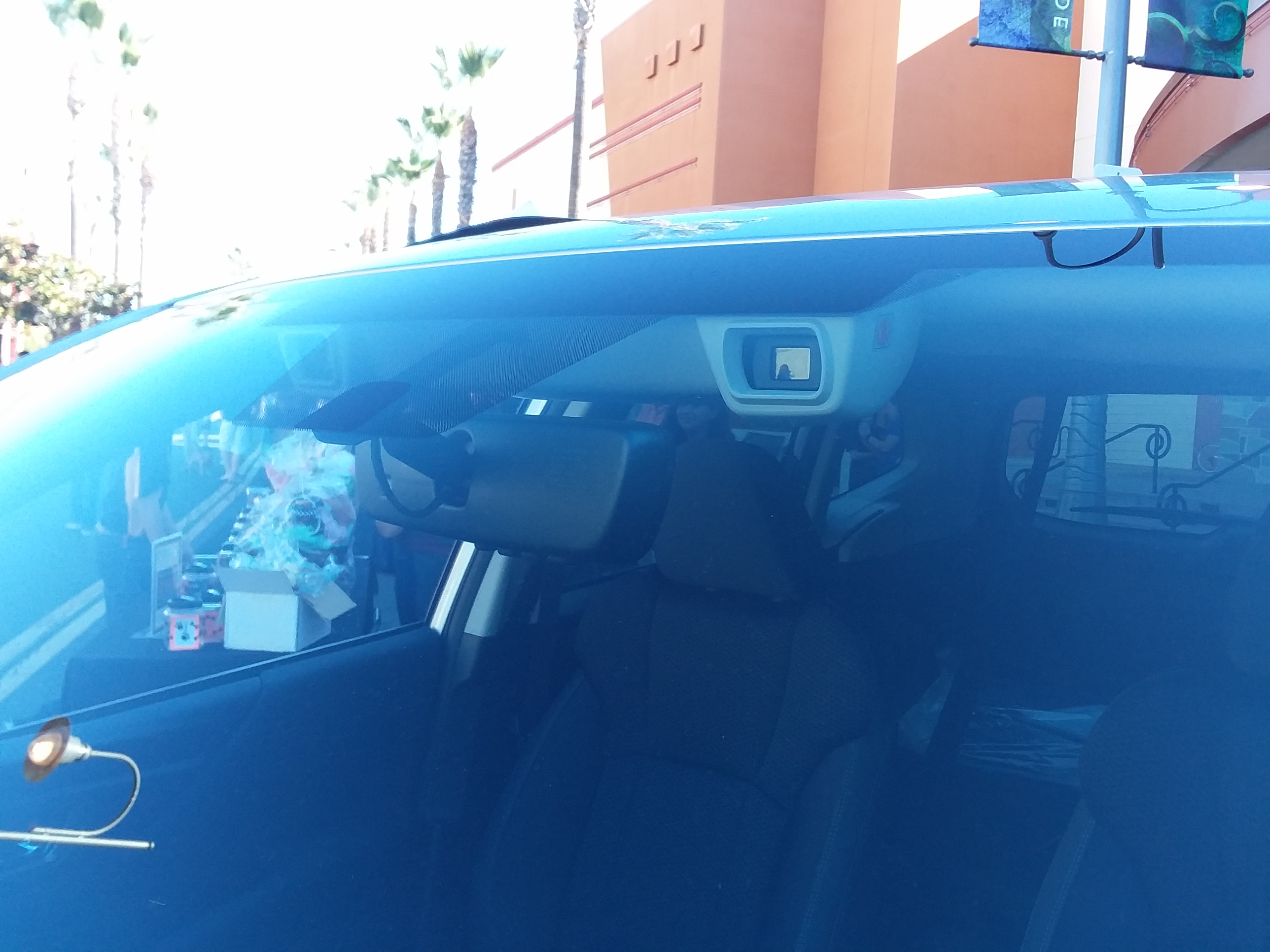 This is a Subaru Forester 2018 (SK) CUV. Picture of Subaru's Eyesight Cameras. Manufactured in Ota, Gunma, Japan